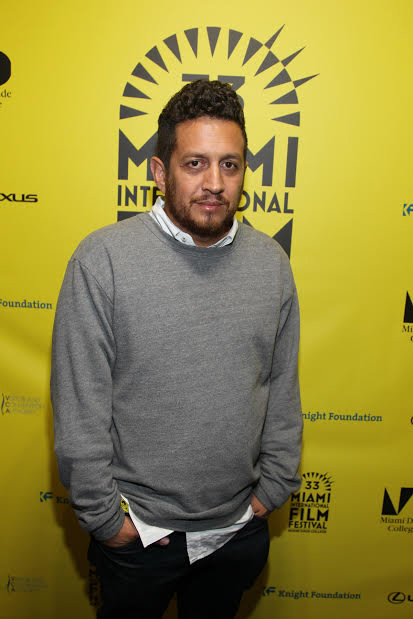 Director Julio Hernández Cordón at the Miami Film Festival presentation of "I PROMISE YOU ANARCHY" Photo: David Heischrek